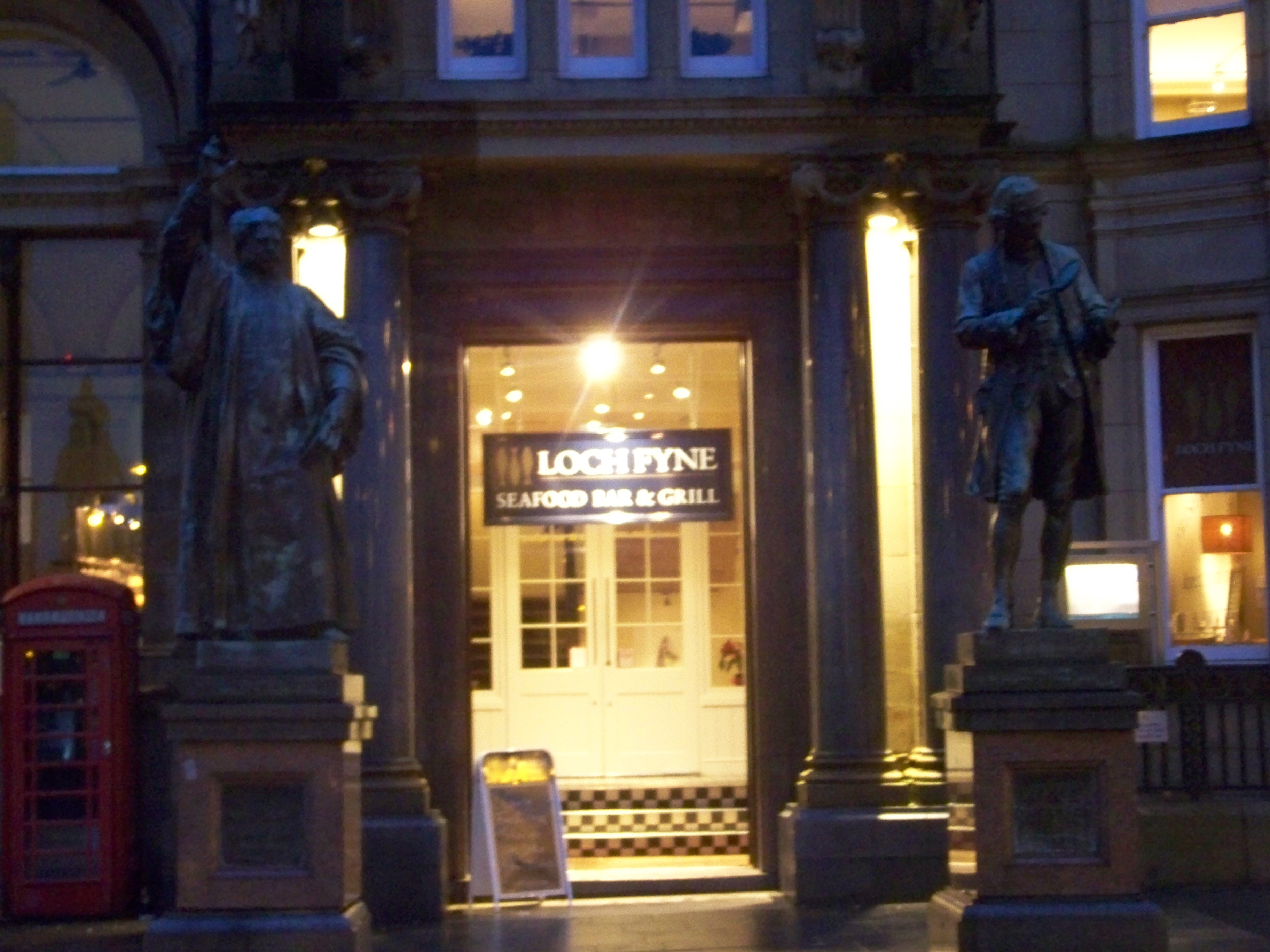 The Loch Fyne Seafood bar and grill in the permesis of the former Post Office on City Square in Leeds. Taken on the evening of Saturday the 16th of January 2010.